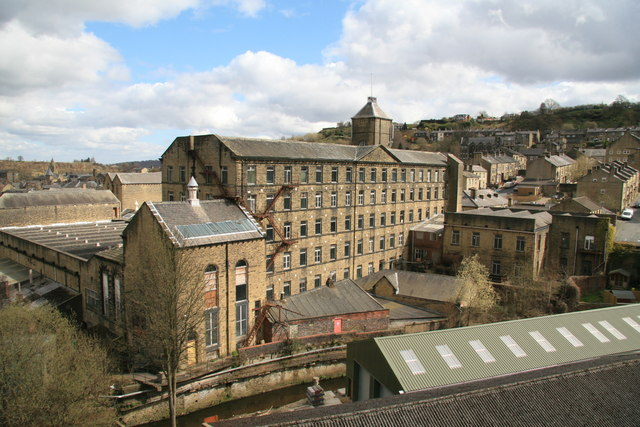 West Vale Mills Still in use. The photo shows the main pedimented block, fine stair tower, weaving shed and two engine houses in the bottom left corner.